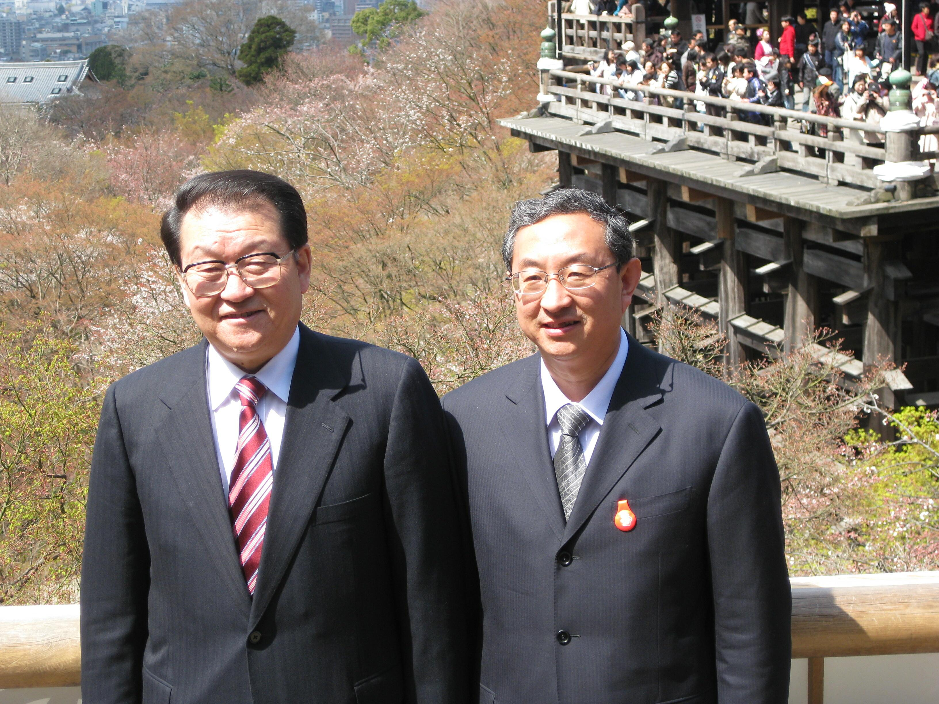 Li Changchun at Kiyomizudera in Kyoto